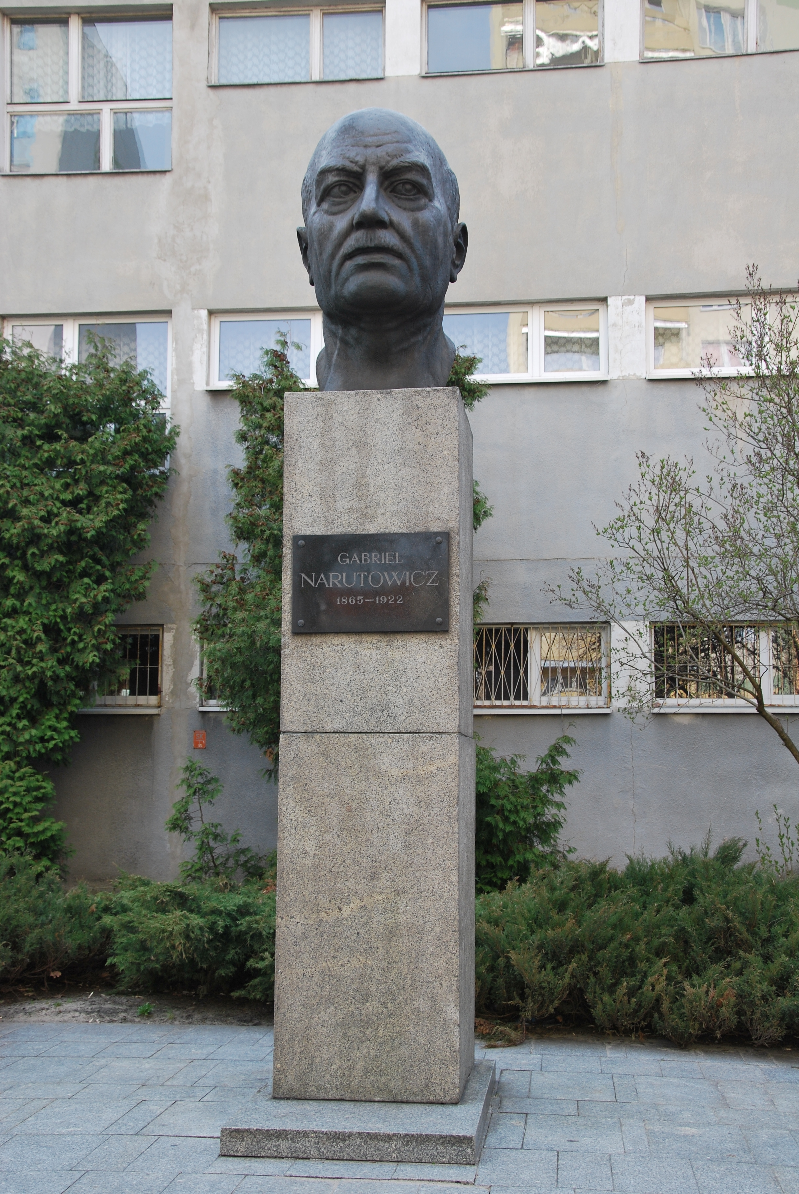 President Gabriel Narutowicz bust, II High School in Łódź, 11-13 Nowa Street